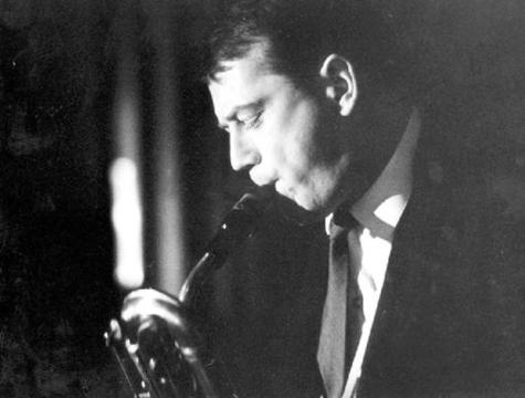 Press photo of Lars Gullin 1964.